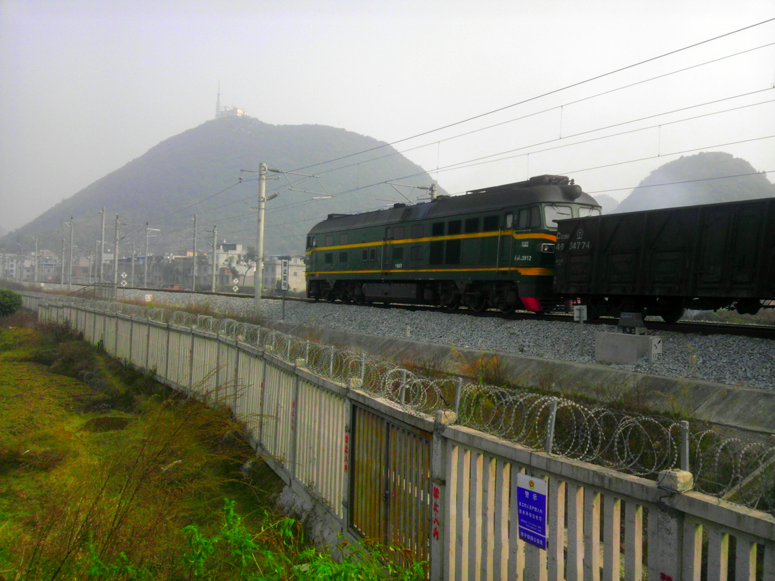 A freight train went to Guilin Railway Station.